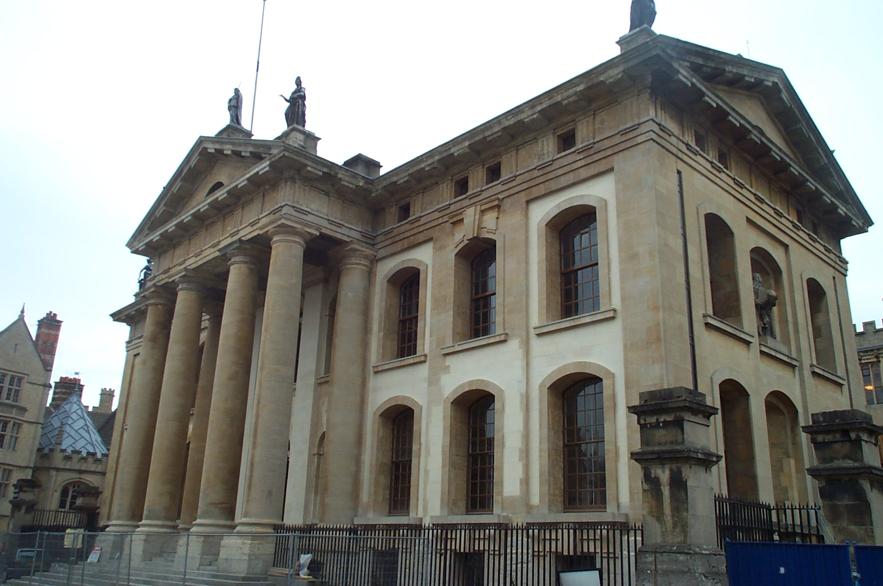 Clarendon Building after cleaning and restoration, 2006-04-12. Copyright © 2006 Kaihsu Tai.